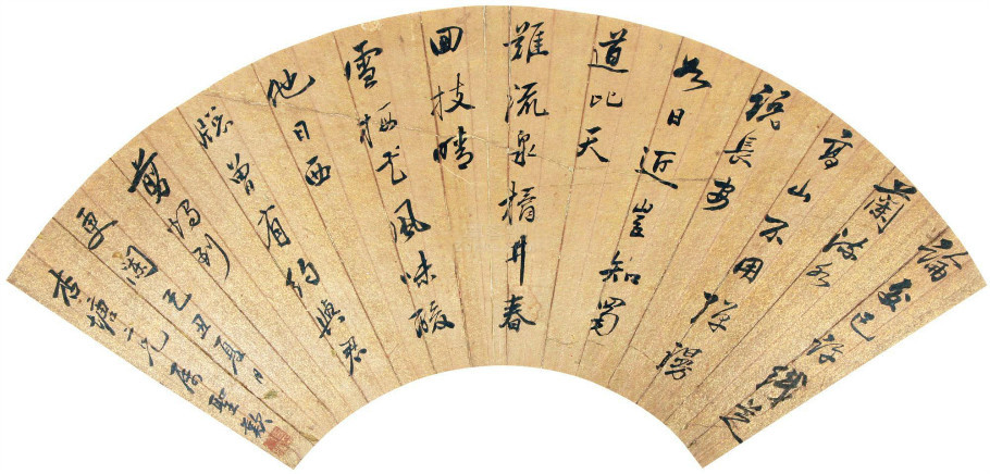 金聖嘆行書手跡